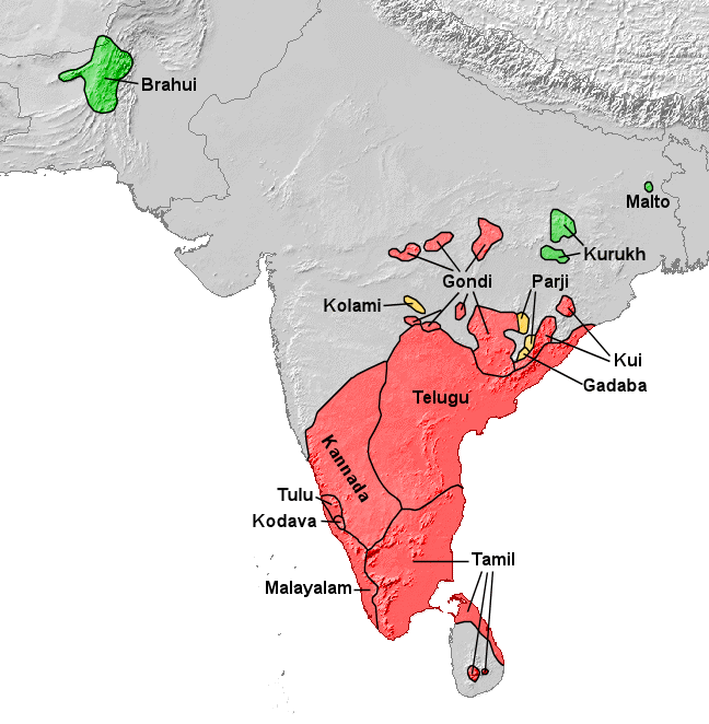 The geographical distribution of the main subfamilies of Dravidian languages. Adapted from File:Dravidische Sprachen.png